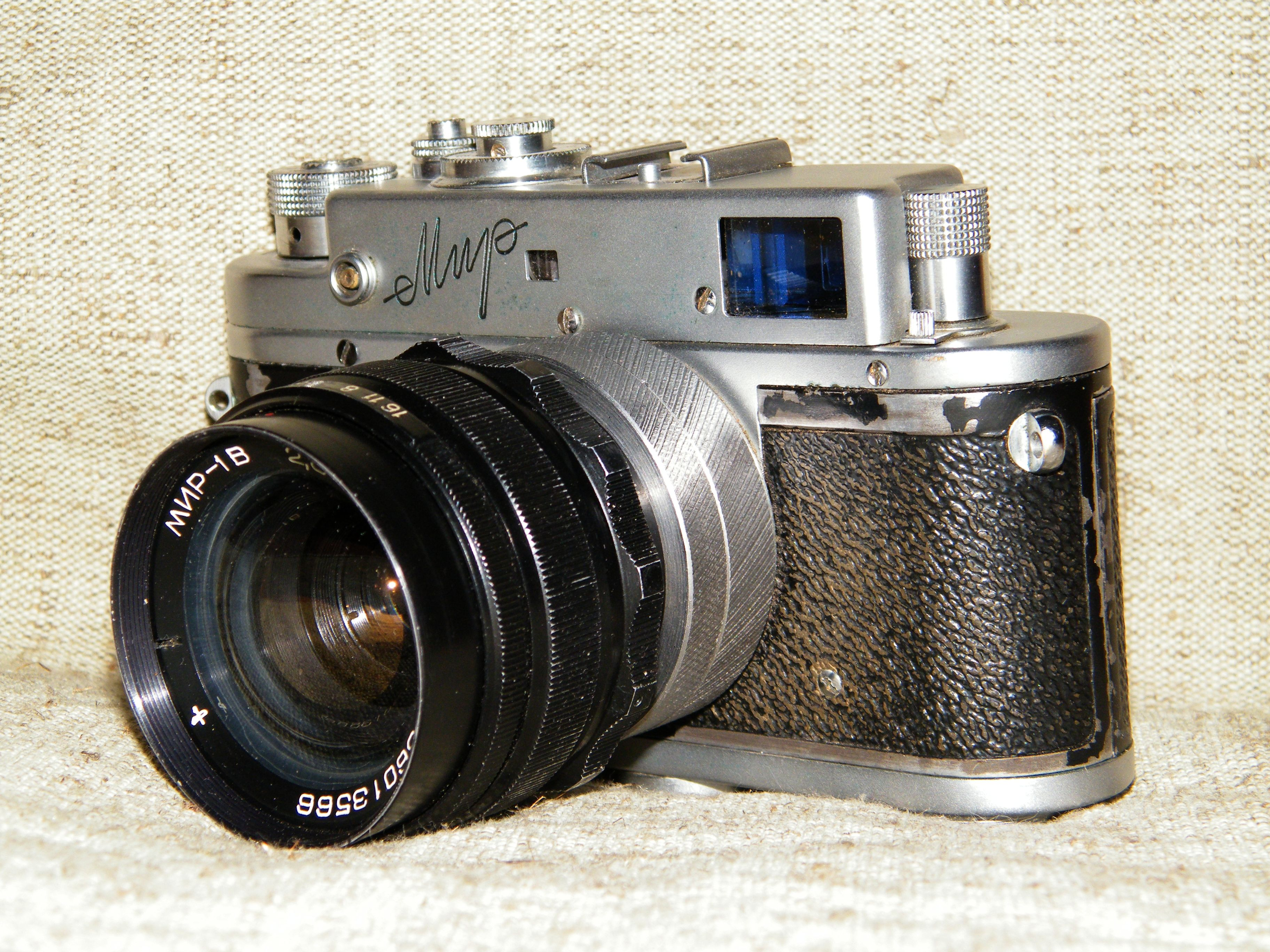 Mir camera